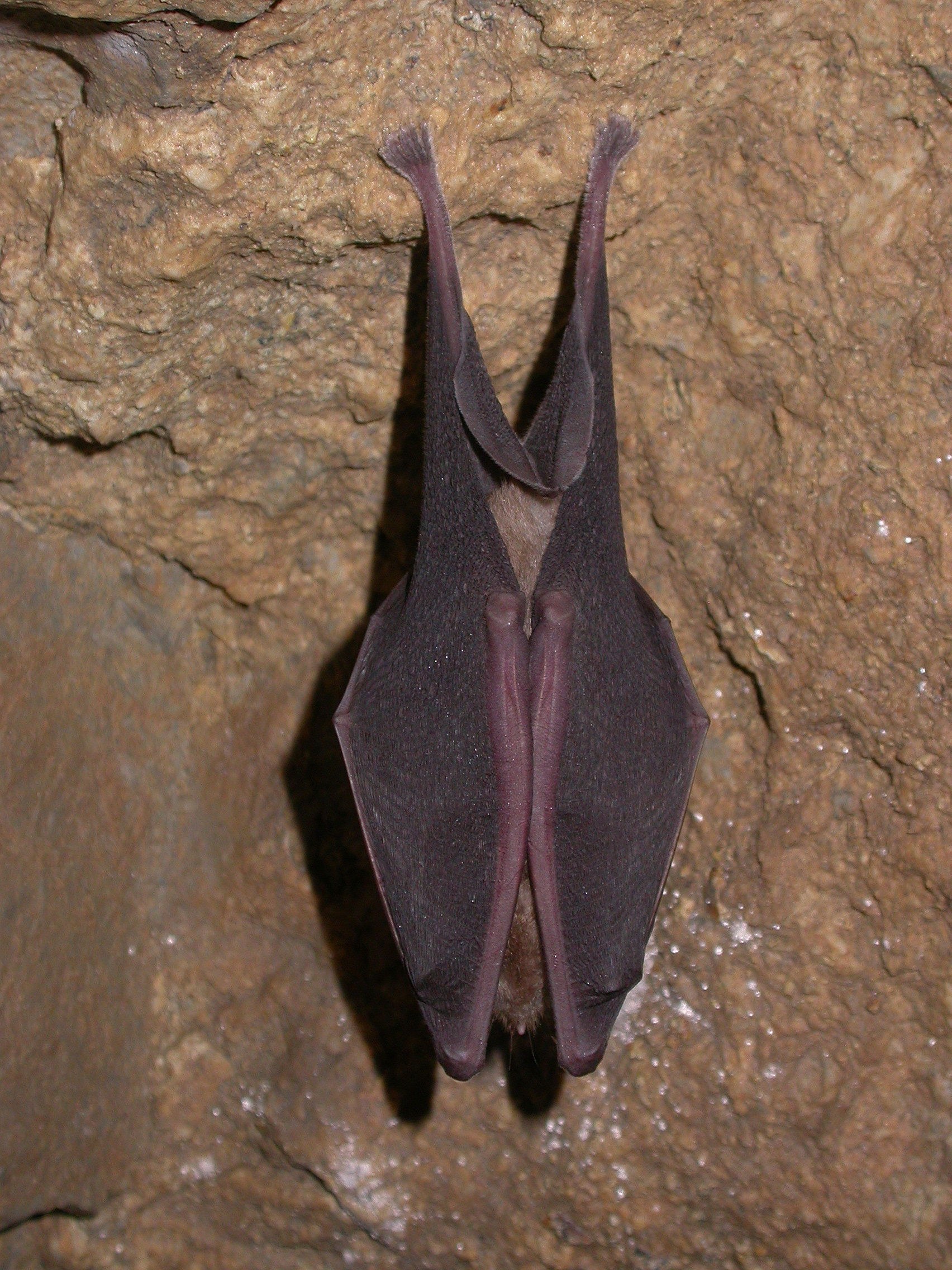 Horseshoe bats seems to be extremely sensitive to disturbance during the winter (particularly the lesser horseshoe bat) and taking pictures of these species could be very dangerous for the survival of the individuals. The non natural awakening of an hibernating bat provoke the burning of an important part of the lipid storage that the bat needs to stay alive during all the winter. When you take pictures, light, ultrasounds of the flash, warmth of the photographer that could change the cave temperature, etc... increase the probability to provoke the awakening of the bat. This individual has been photographed in a touristic cave and It seems that he was habituated to the noise and light. The hind legs are completely relaxed. This is an indication that the individual was not stressed and was still asleep. Horseshoe bats have a reflex contraction of the hind legs when stressed during the overwintering.